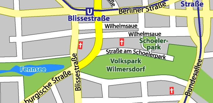 Map of Fennsee in Volkspark Wilmersdorf in Berlin, Germany